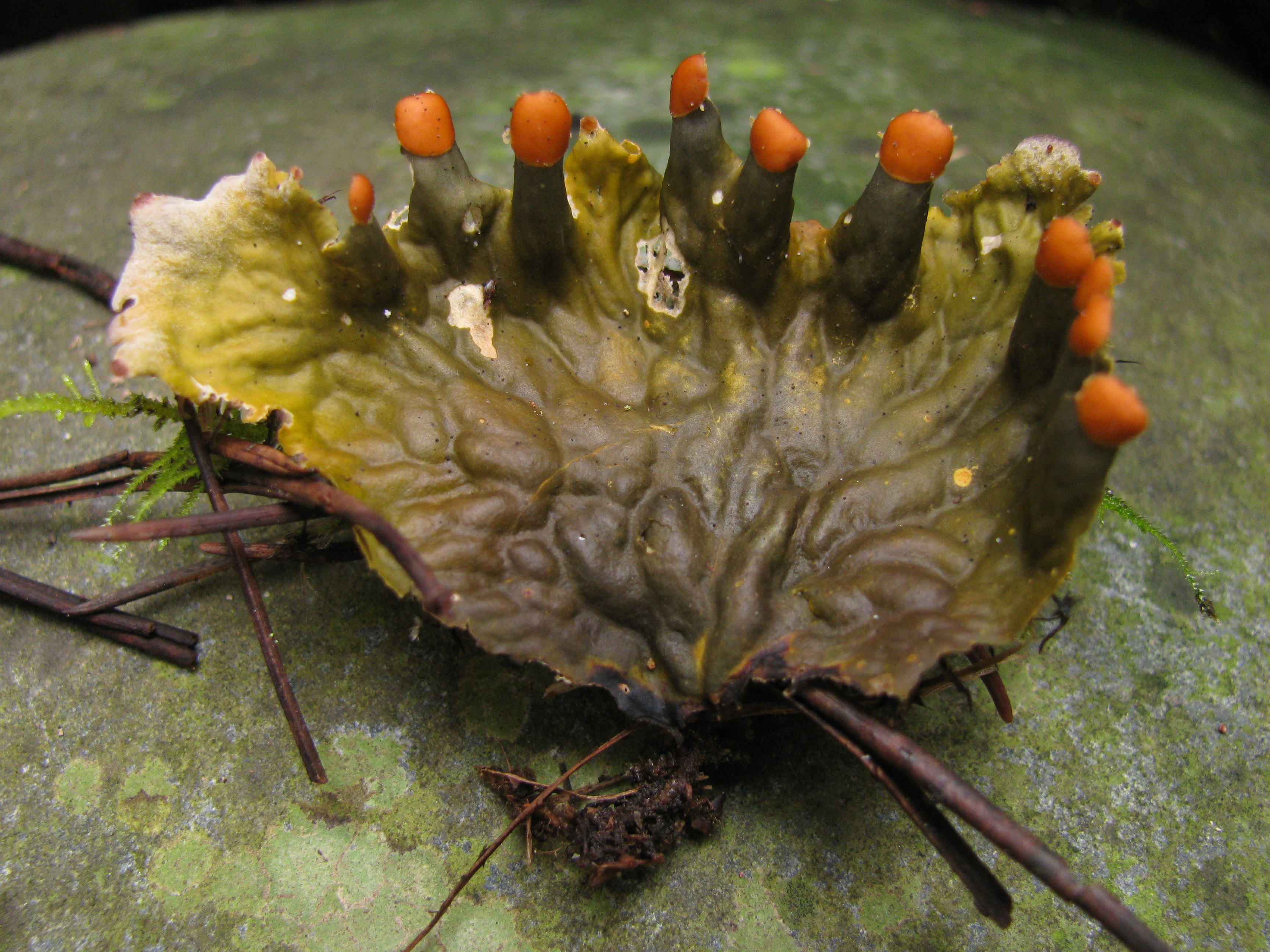 The lichen species Peltigera membranacea (Ach.) Nyl. Specimen photographed in Bean’s Orchard, Mendocino, Mendocino County, CA.